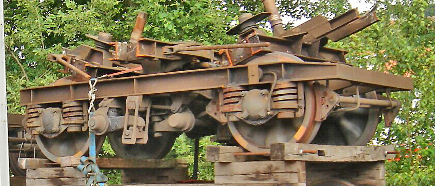 SIG-Torsion bar suspension bogie truck of RhB B 2211 class coach.